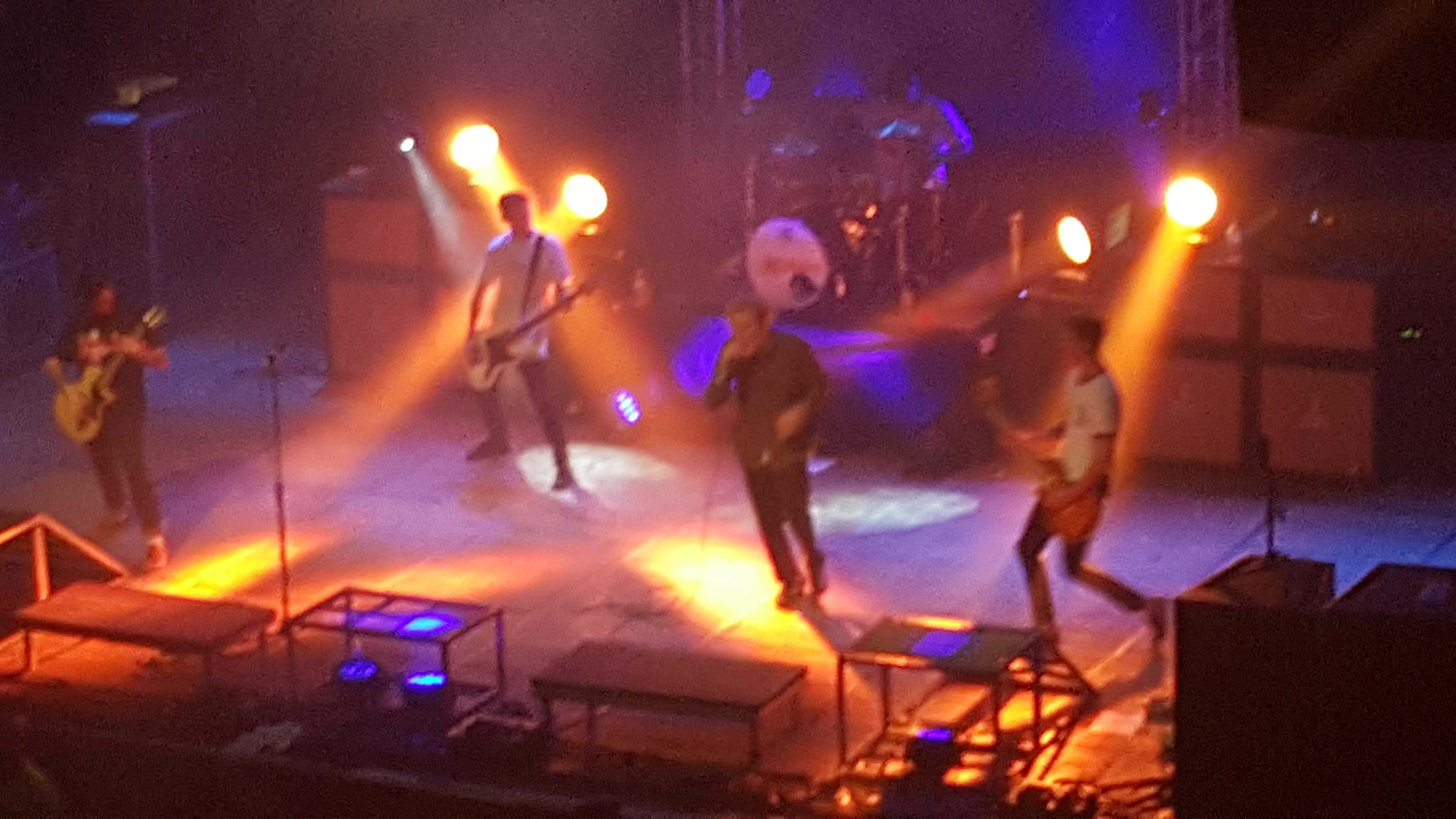 Neck Deep playing in Cleveland, Ohio on February 12, 2016